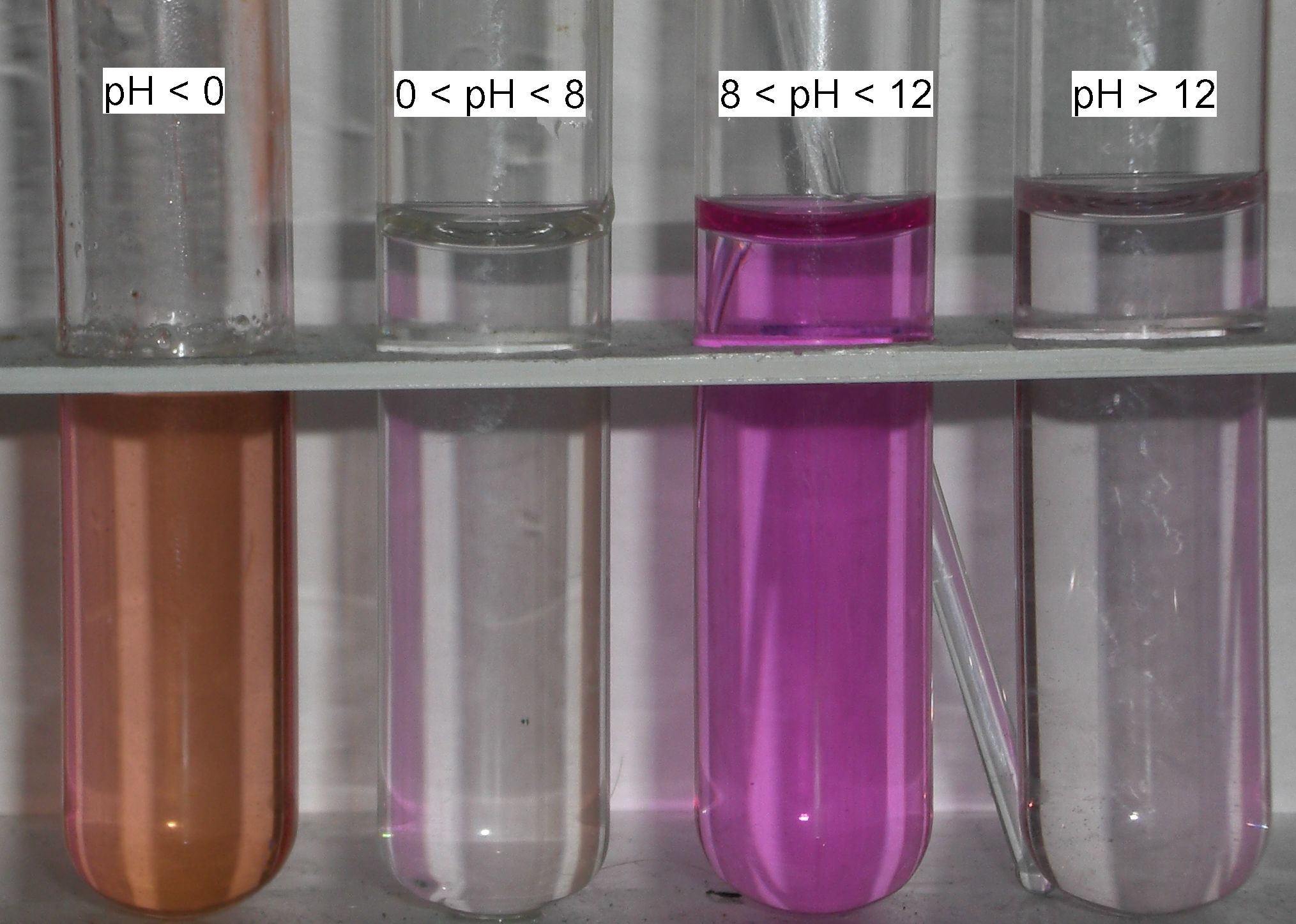 colours of phenolphthalein